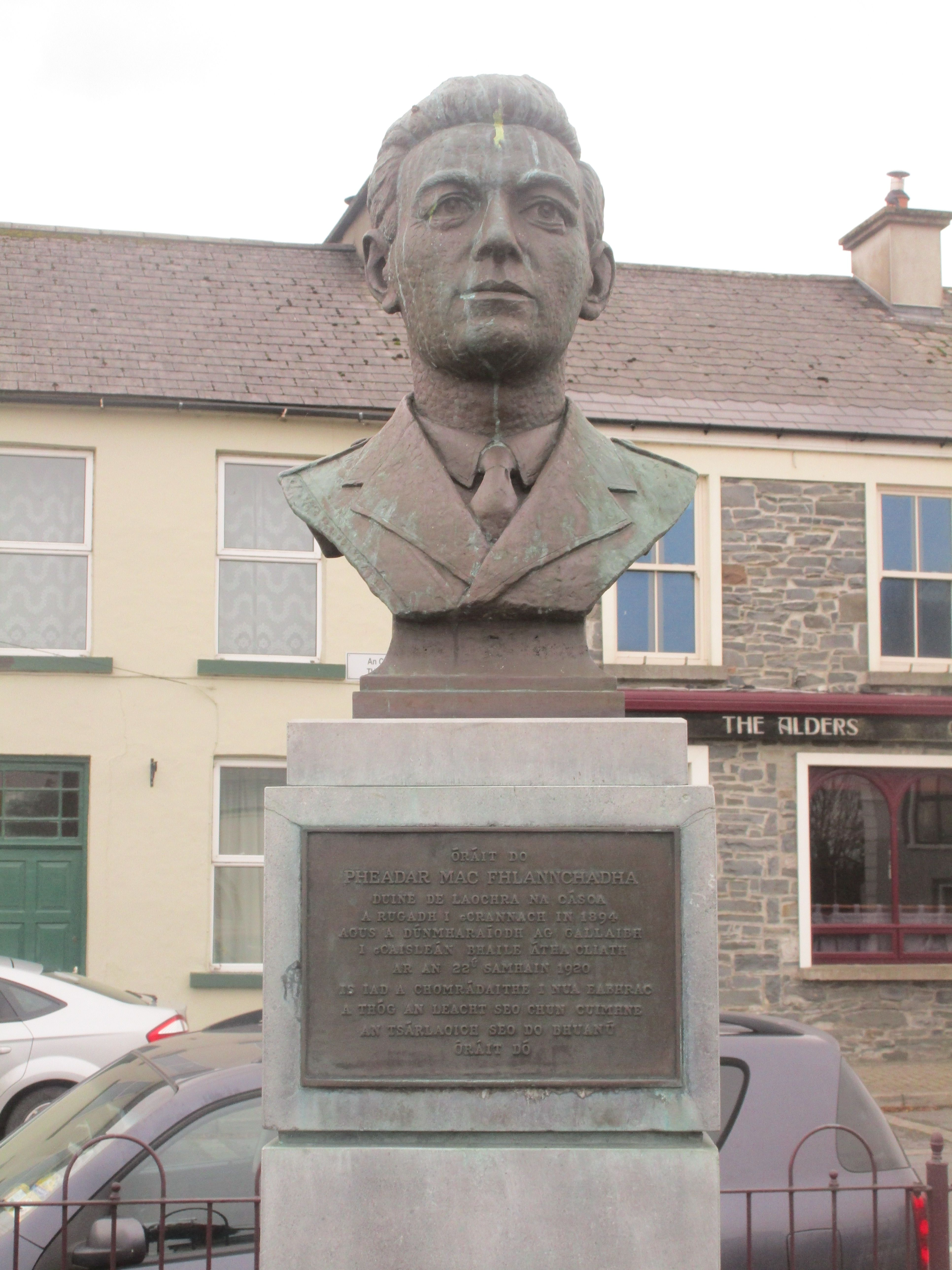 County Clare, Peadar Mac Fhlannchadha Memorial. Wikidata has entry Q55049103 with data related to this item.